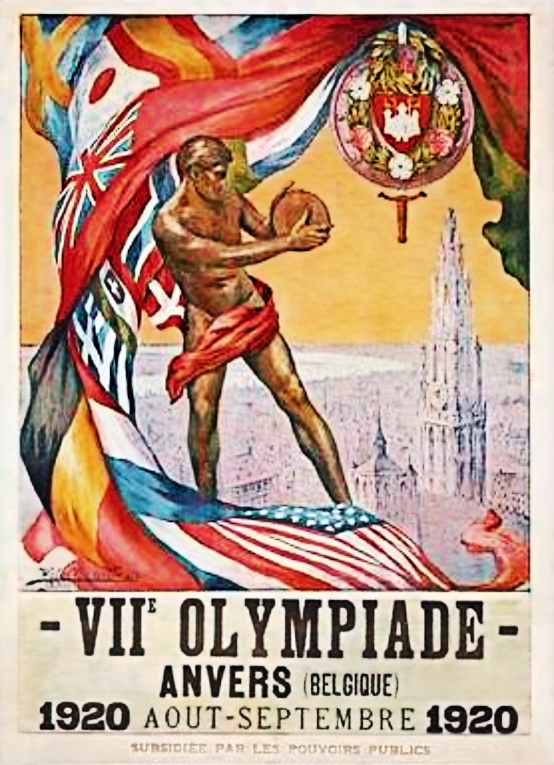 Poster of the 1920 olympic games.